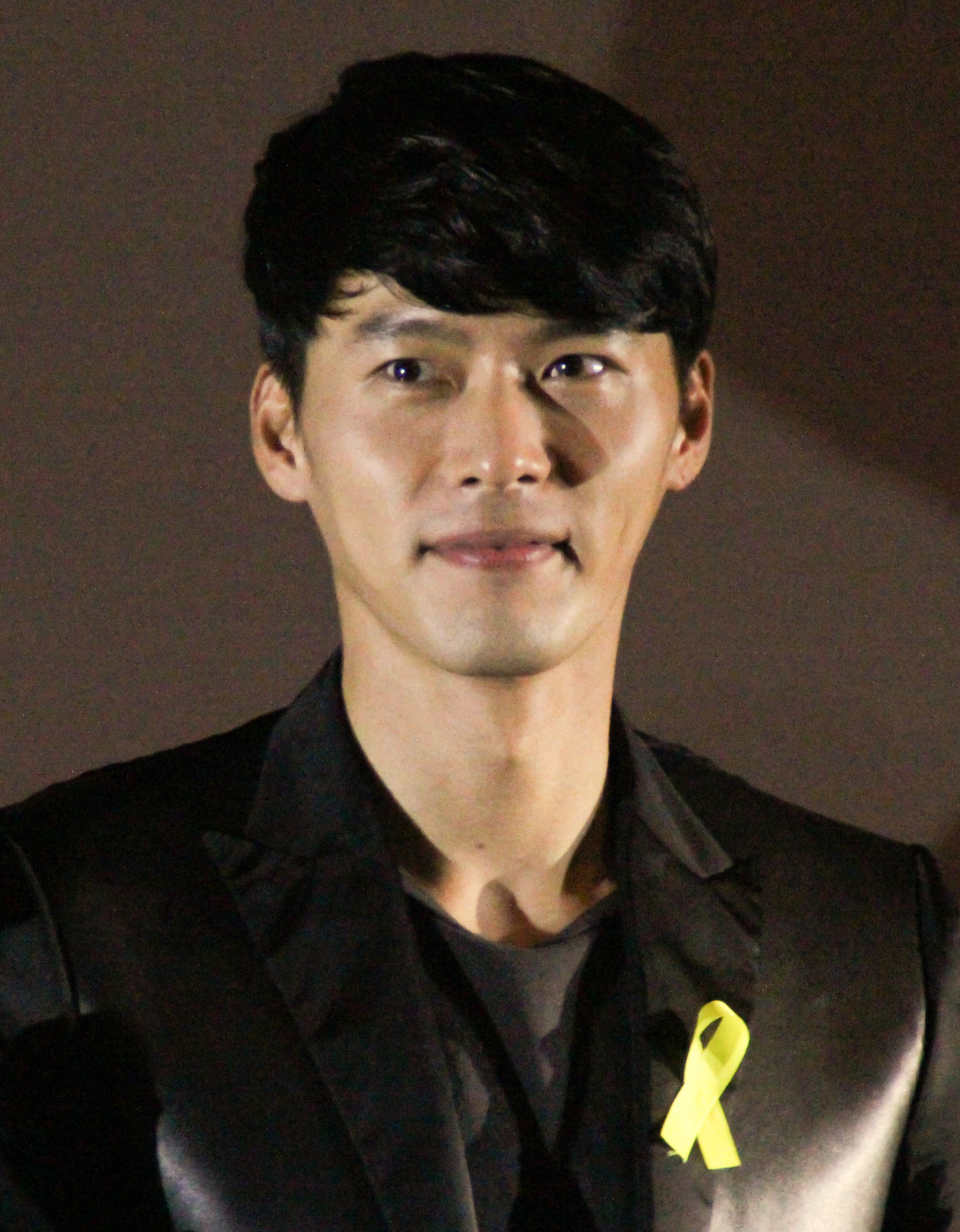 Hyun Bin at the press conference for "Fatal Encounter", 2 May 2014